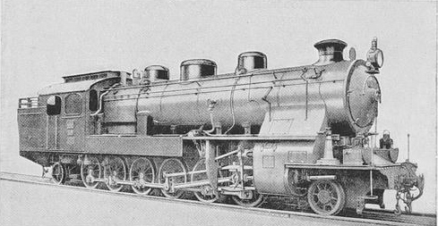 Superheated steam locomotive of the state railway on Java. Type 1F1